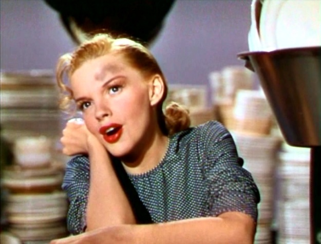 Screenshot of Judy Garland from the film Till the Clouds Roll By